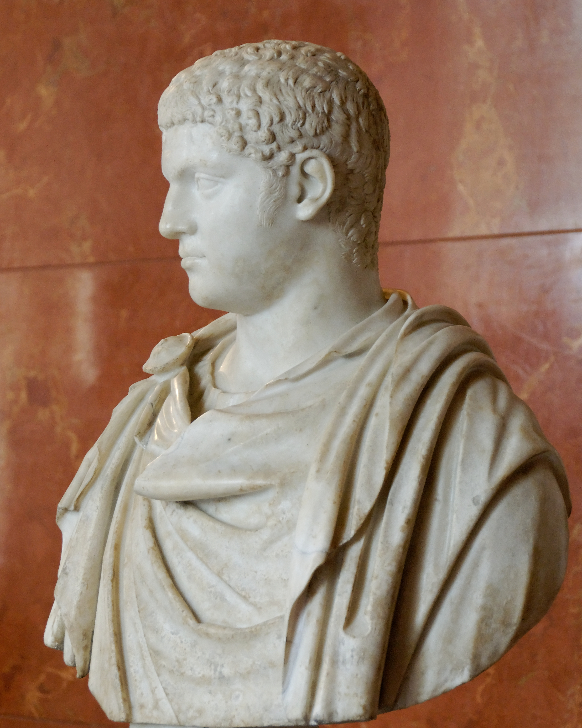 Publius Septimius Geta. Marble, Roman artwork, ca. 208 CE. From Gabies.